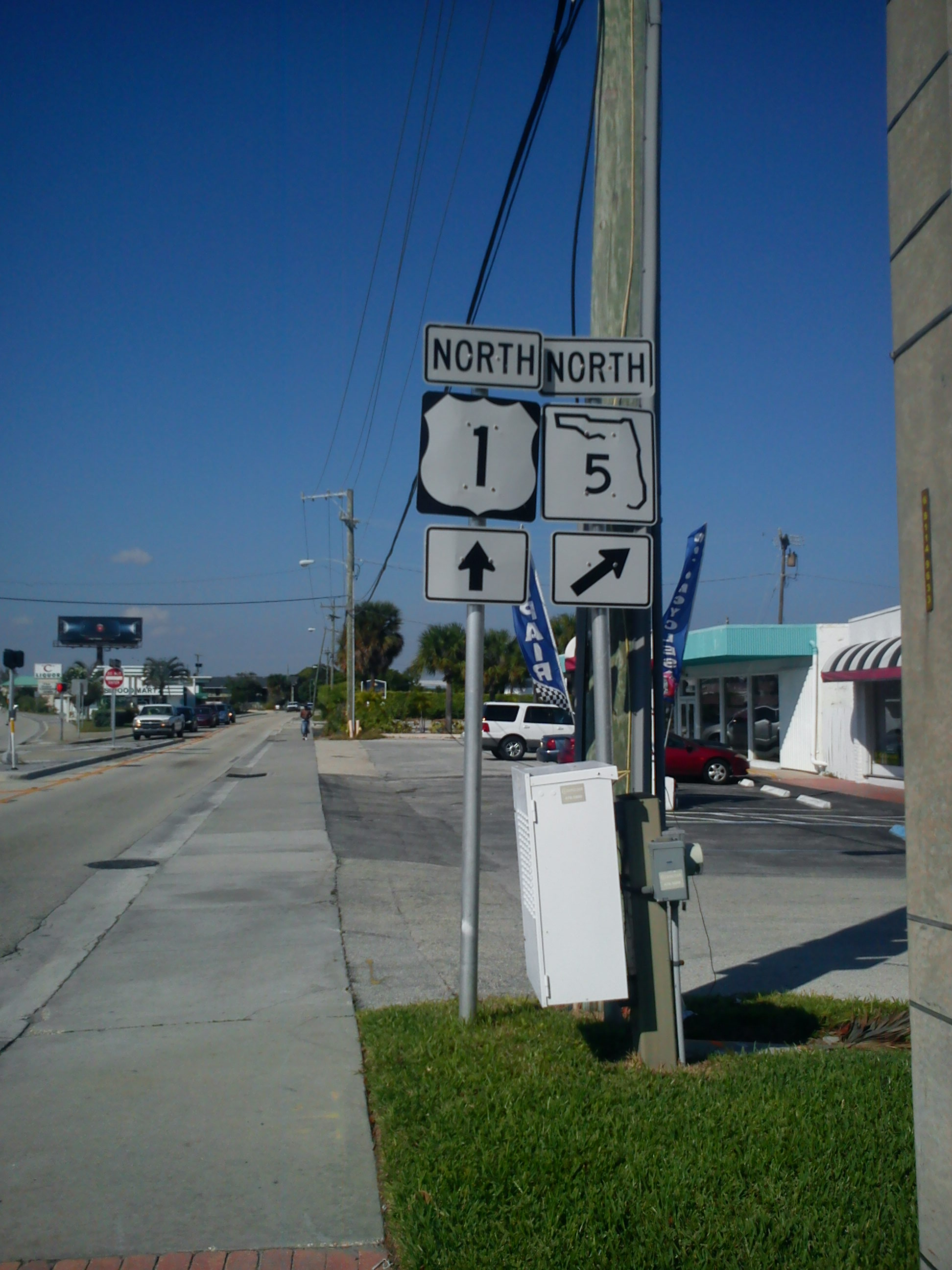 Florida State Road 5 in Lantana